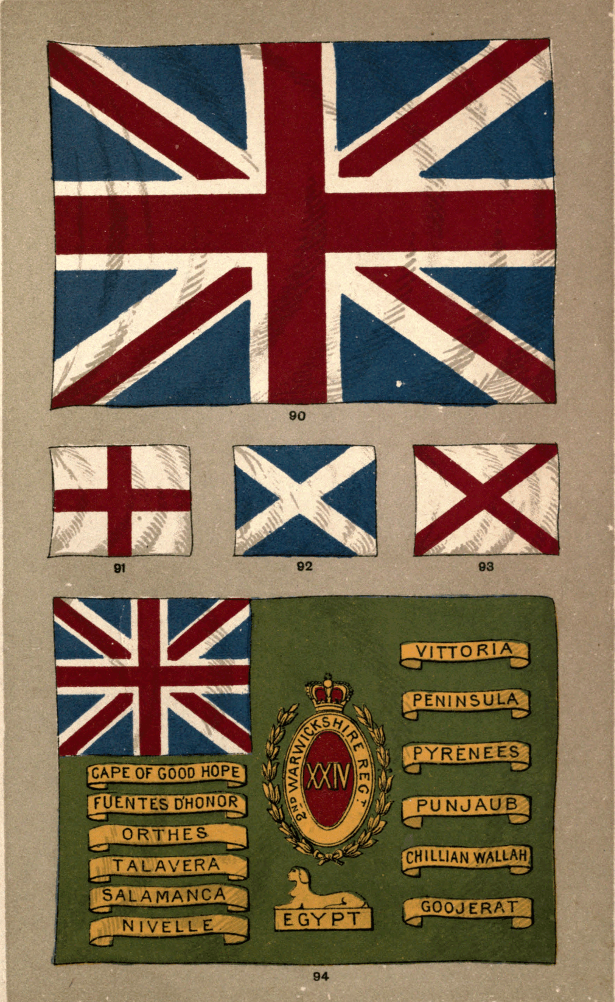 Plate 10. 90 Union Flag of Great Britain and Ireland. 91 Cross of St. George of England. 92 Cross of St. Andrew of Scotland. 93 Cross of St. Patrick of Ireland. 94 Regimental Colours: 24th Regiment of Foot, the 2nd Warwickshire Regiment.